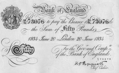 Observe side of the fifty-pound sterling banknote